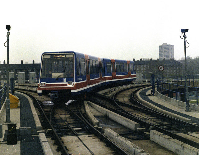 Delta Junction at West India Quay When the Docklands Light Railway opened in 1987 it was a much smaller and simpler set-up than it has now become. It was Britain's first railway with driverless passenger trains controlled by computer. Here one of the original cars is seen on the Delta junction just north of Canary Wharf station. This area has since been entirely remodelled and now looks completely different to this 1987 view.